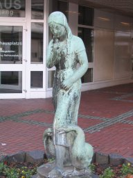 fountain in Monheim, Germany